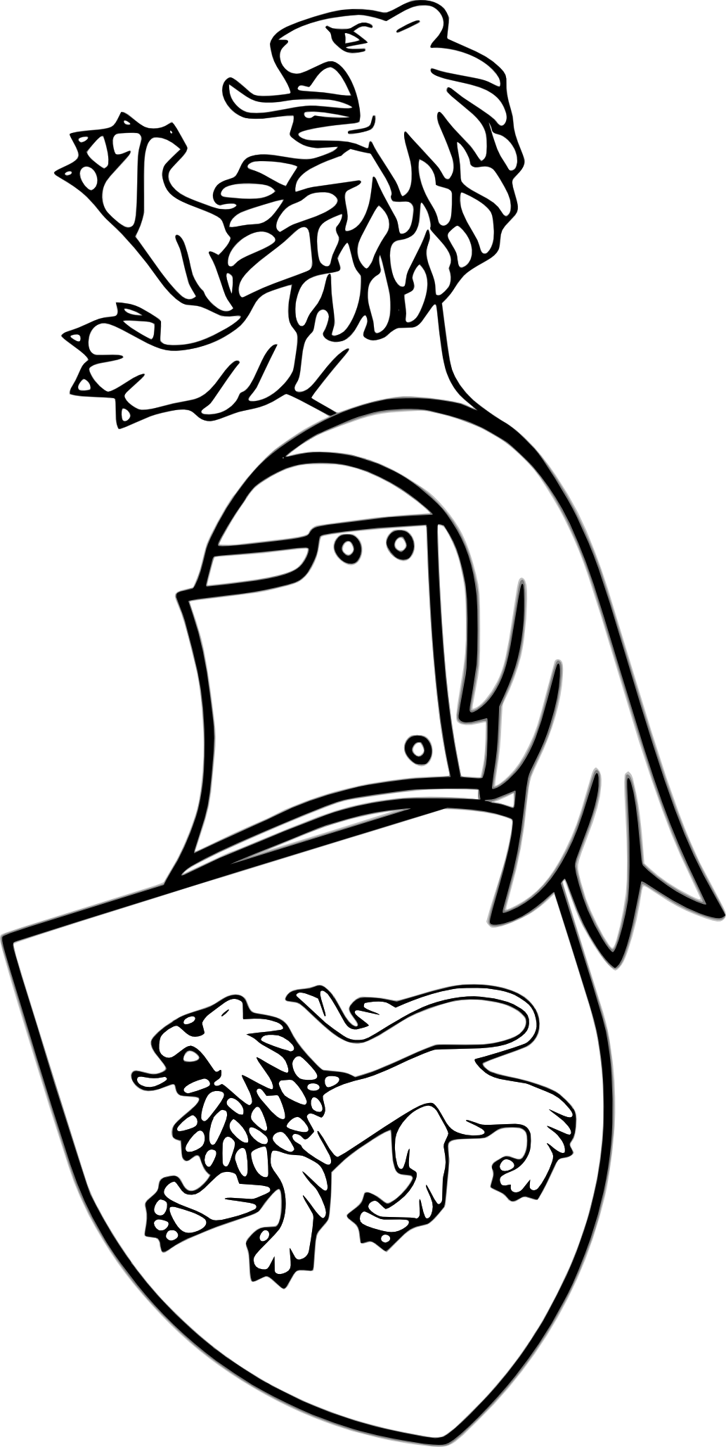 Coat of Arms of Branko Mladenovic. From "Branko's Belt".Srpski (latinica): Grb Branka Mladenovića. Uzet s "Brankovog pojasa".Српски (ћирилица): Грб Бранка Младеновића. Узет с "Бранковог појаса".